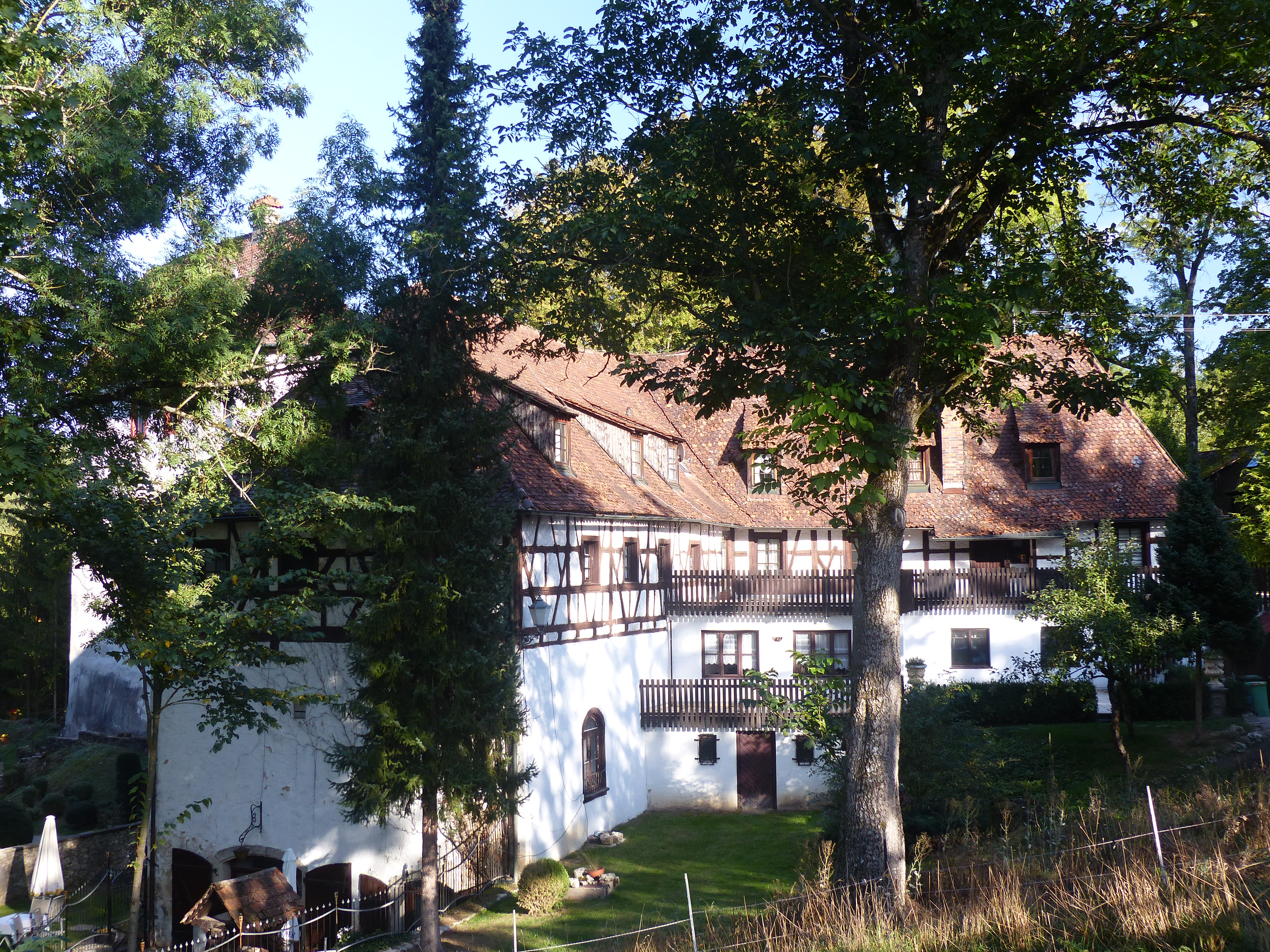 The outer bailey of the Gaillenreuth Castle in Burggaillenreuth, a village and district of the municipality of Ebermannstadt.